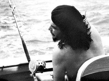 On May 15, 1960, Che Guevara, along with boat mate Fidel Castro, competed against acclaimed author Ernest Hemingway at the "Hemingway Fishing Contest" in Havana, Cuba. In March of 2010, the original proof of this photo sold for £6,600 to a UK-based private collector at the Dominic Winter Auction, in Cirencester.